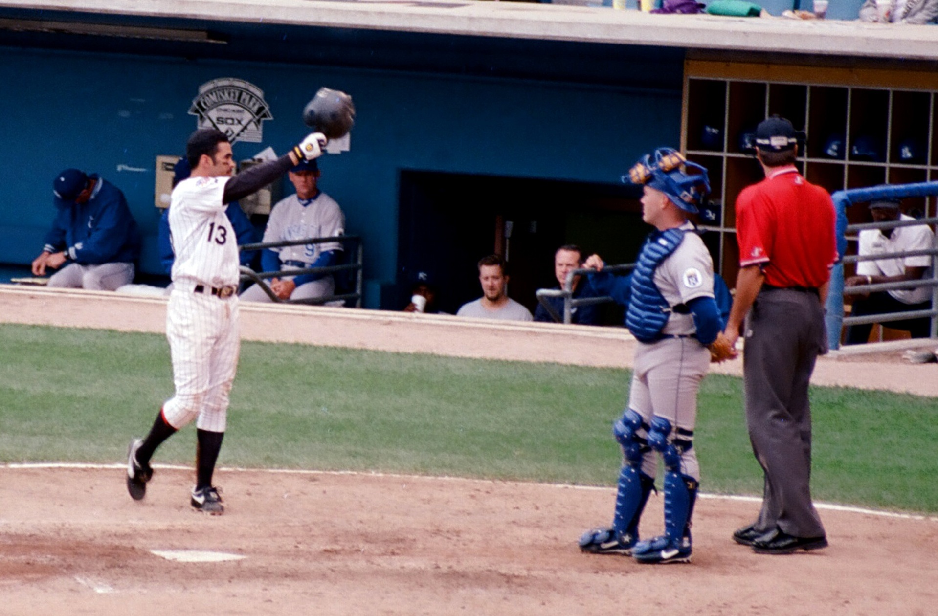 Ozzie Guillen takes his last at bat as a Chicago White Sox player, 1997